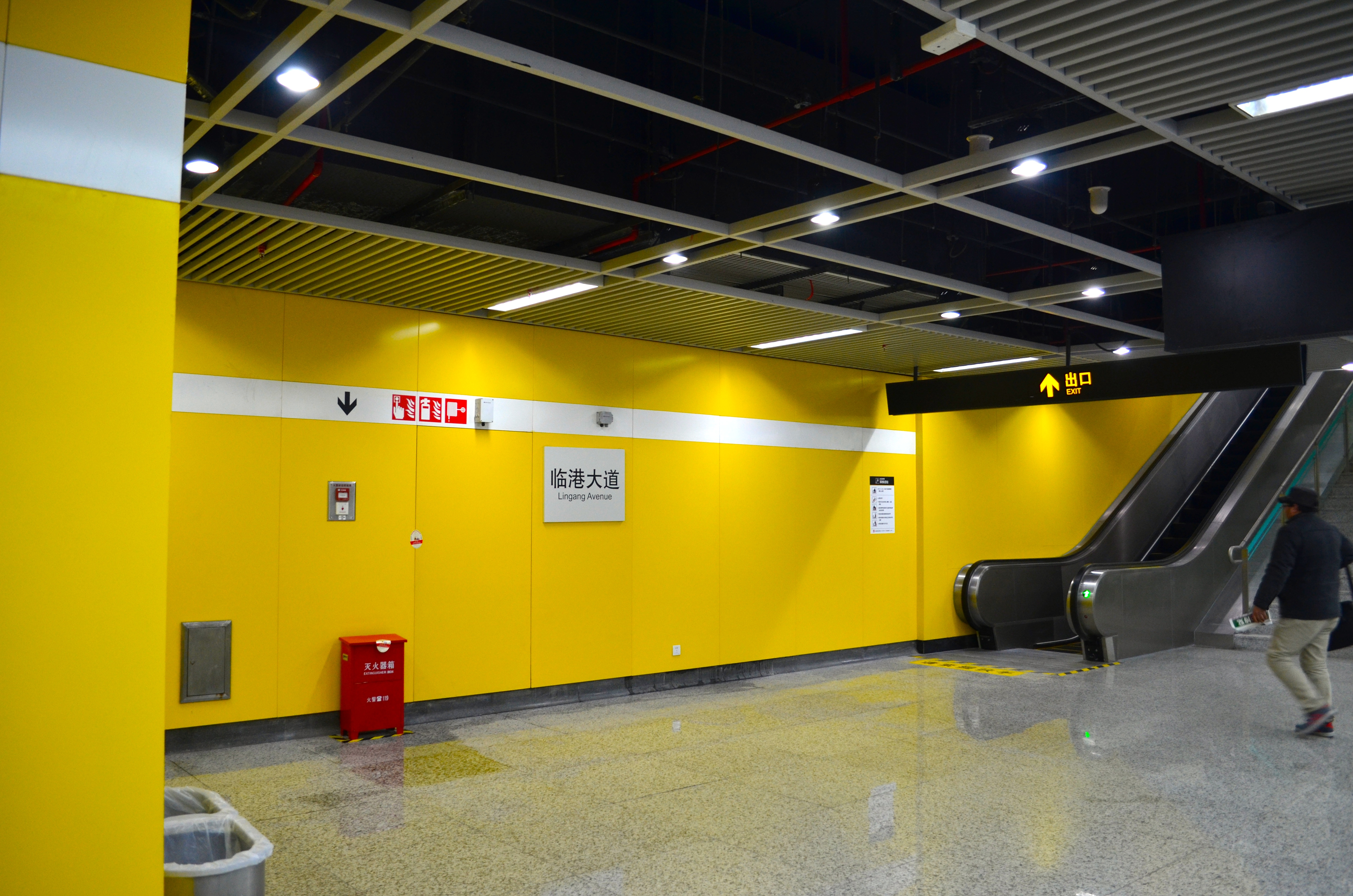 Lingang Avenue Metro Station - Line 16, Shanghai